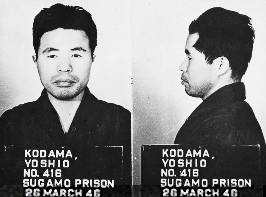 Yoshio Kodama in Sugamo-Prison